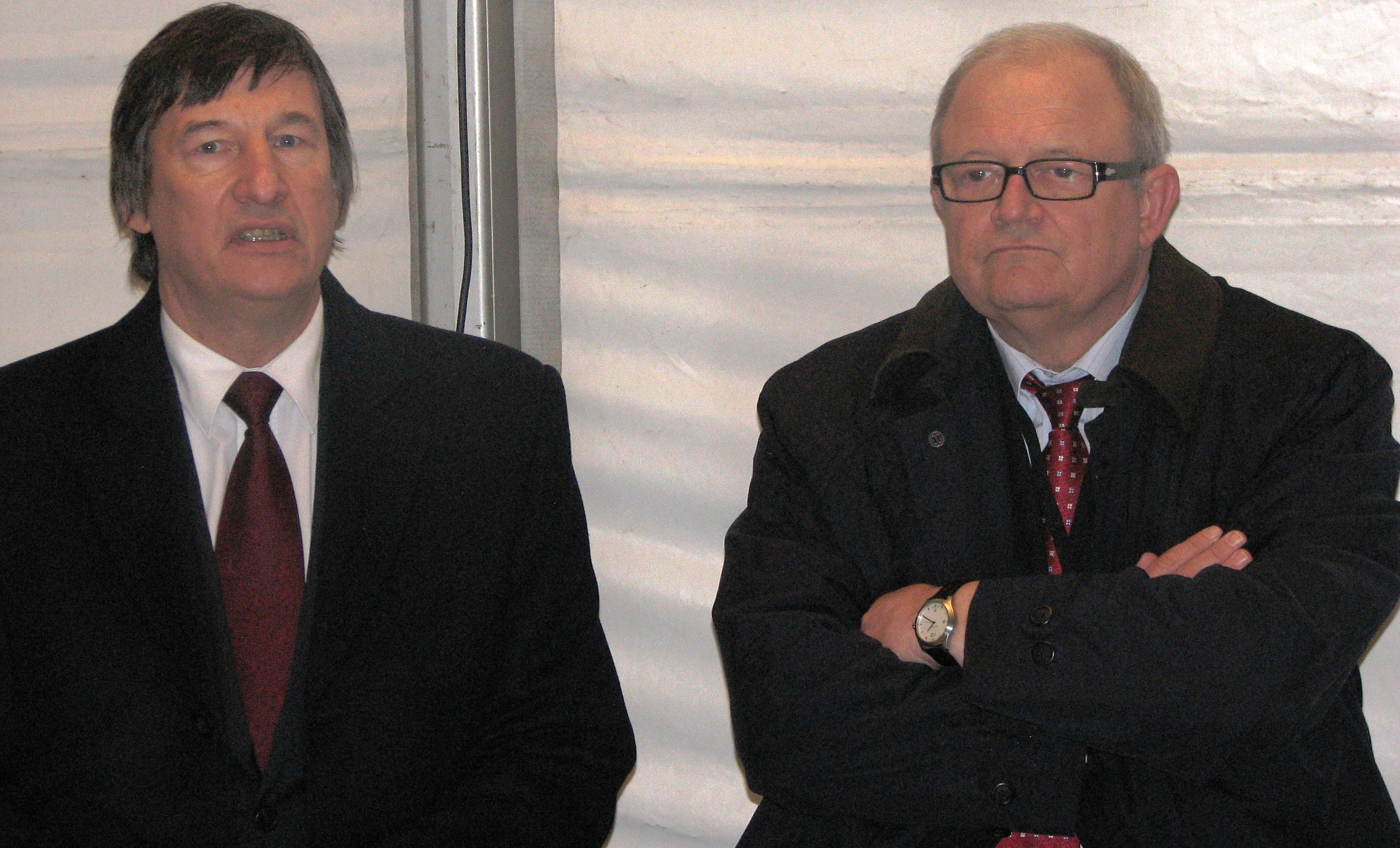 Mart Tarmak (left) and Alfonsas Eidintas (right) performing in Tallinn Literature Festival HeadRead.